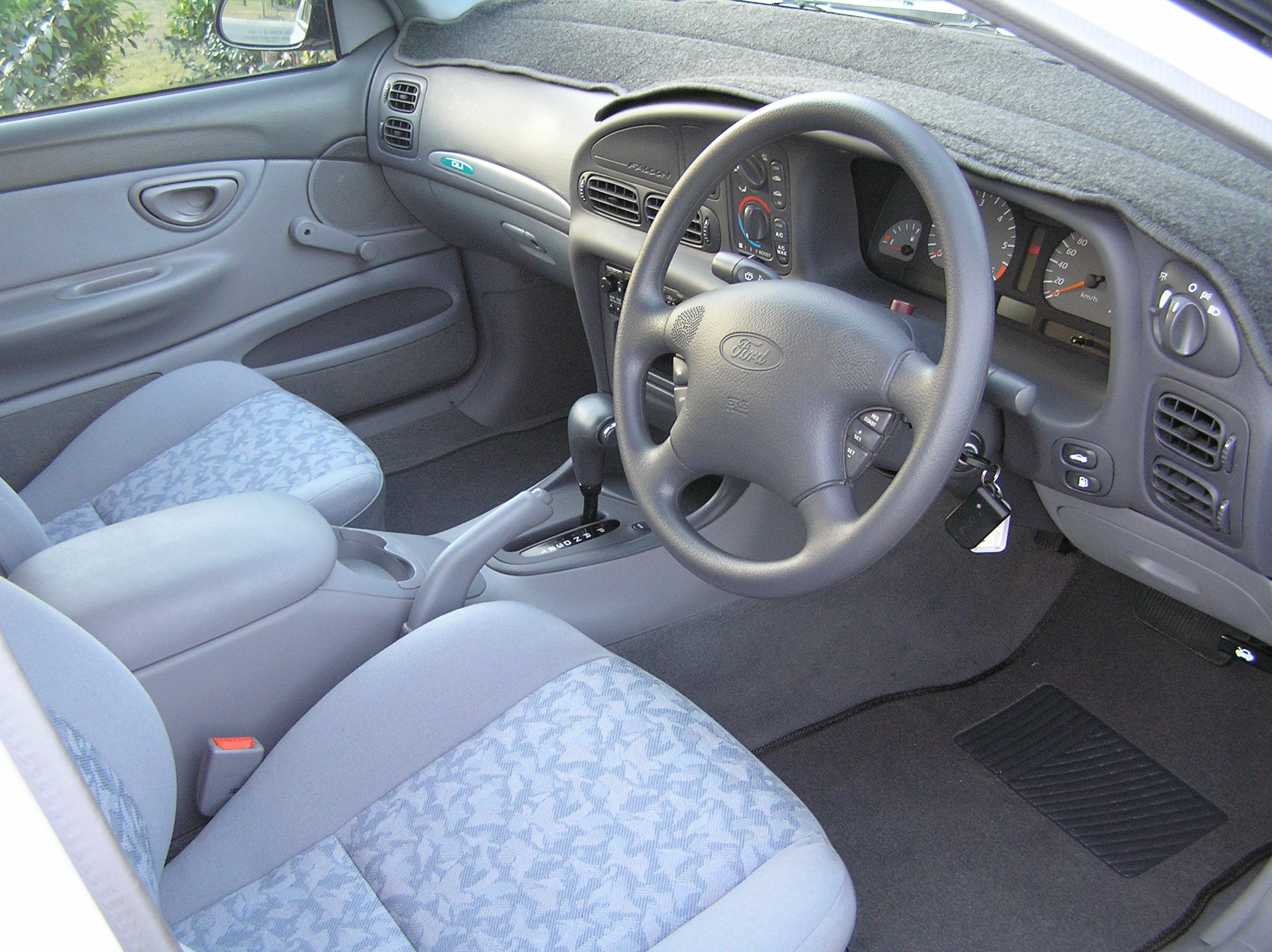 1998 Ford Falcon (EL) GLi sedan. Photographed in Queensland, Australia.